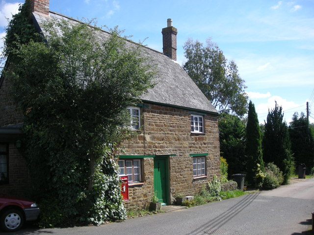 Cottage and former post office, Church Street, Charwelton, Northamptonshire